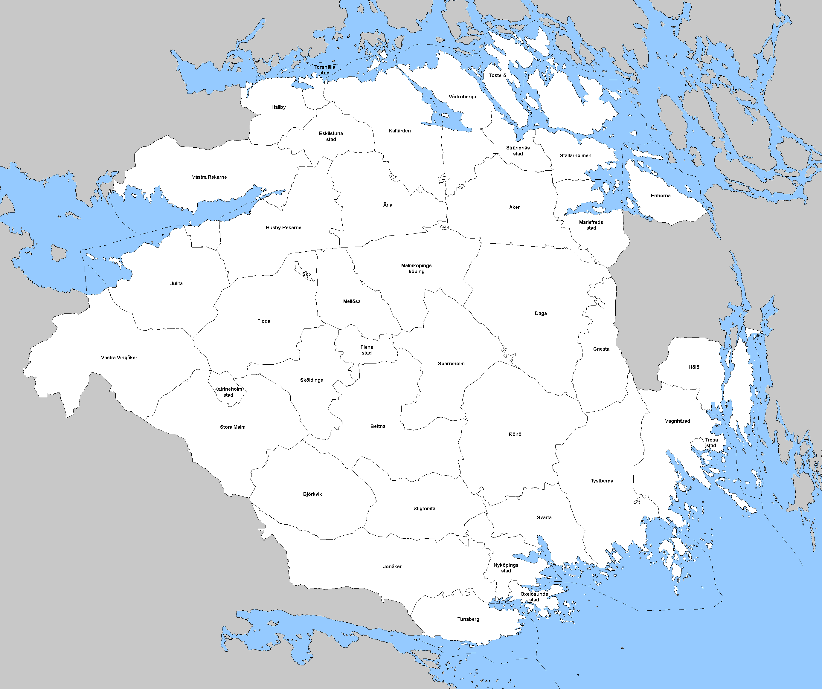 old municipalities in Södermanlands län 1952